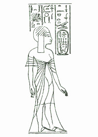 Mutnedjmet, sister of Nefertiti.